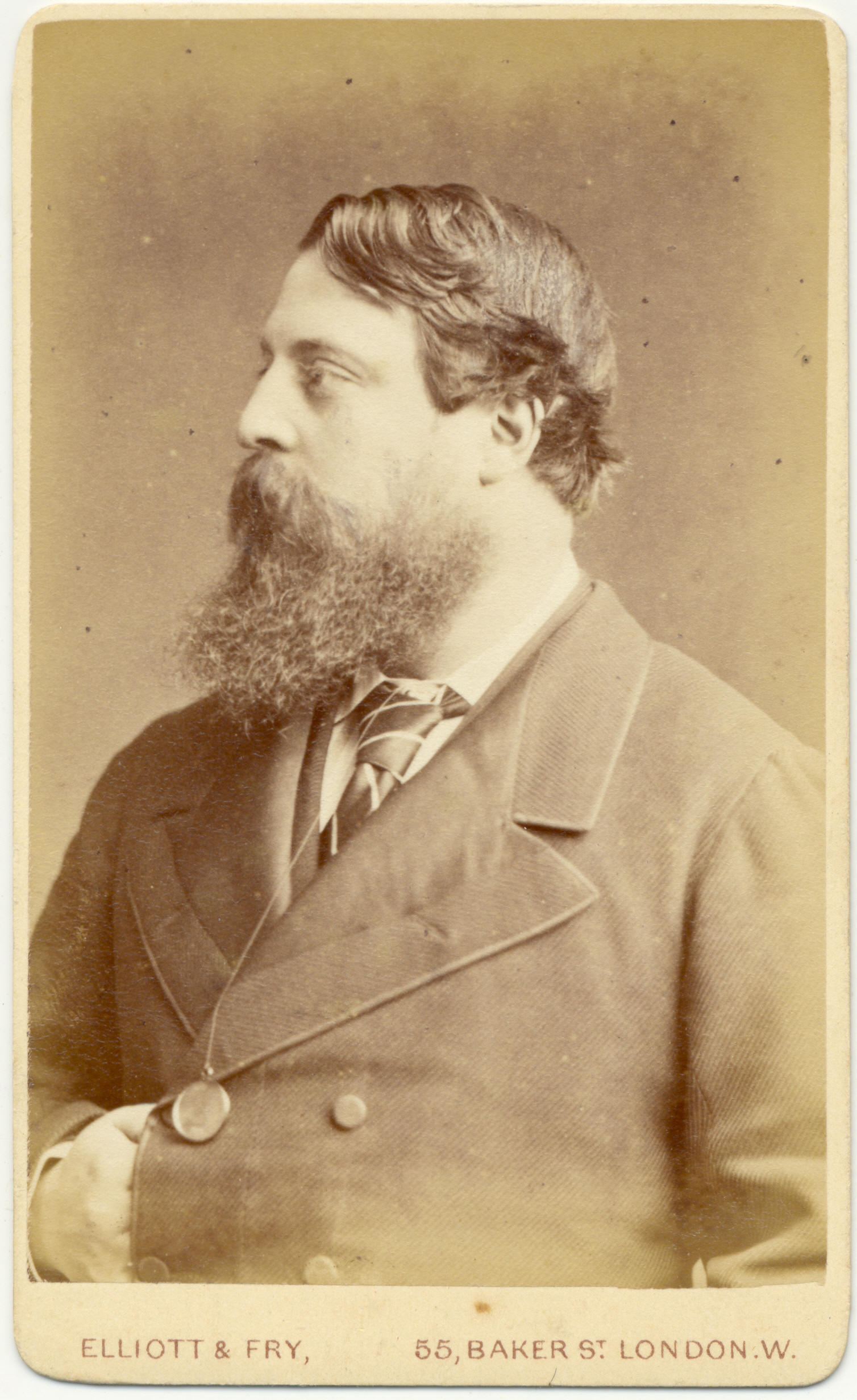 Photograph of Frederick William Brook Thellusson, 5th Baron Rendlesham (1840-1911): round-cornered carte de visite numbered 1981 by Elliott & Fry of 55 Baker Street, London, England, 1874 or earlier